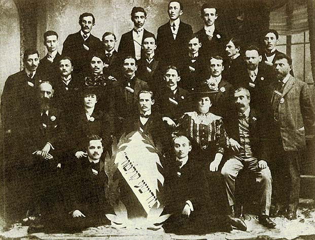 Participants of the Czernowitz Committee Conference (1908): group photo